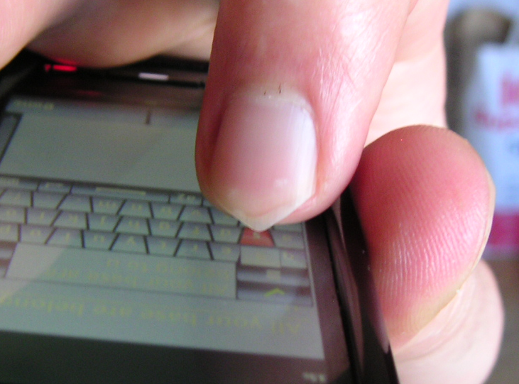 Pointed nail on the index finger to facilitate typing on touchscreens (a Nokia 5800 XpressMusic pictured).